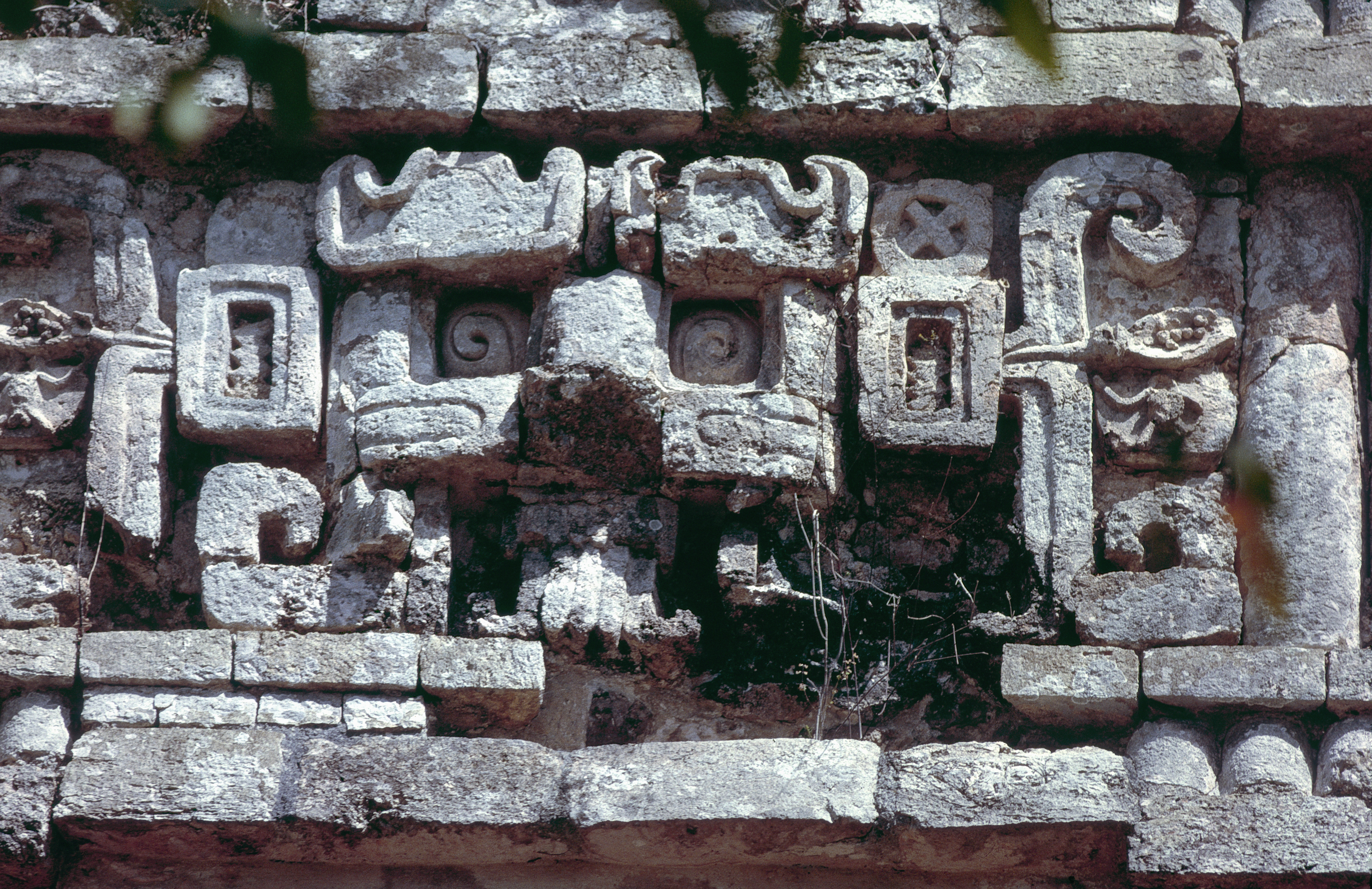 Xkichmook, Yucatan, Mexico: Palace, mask